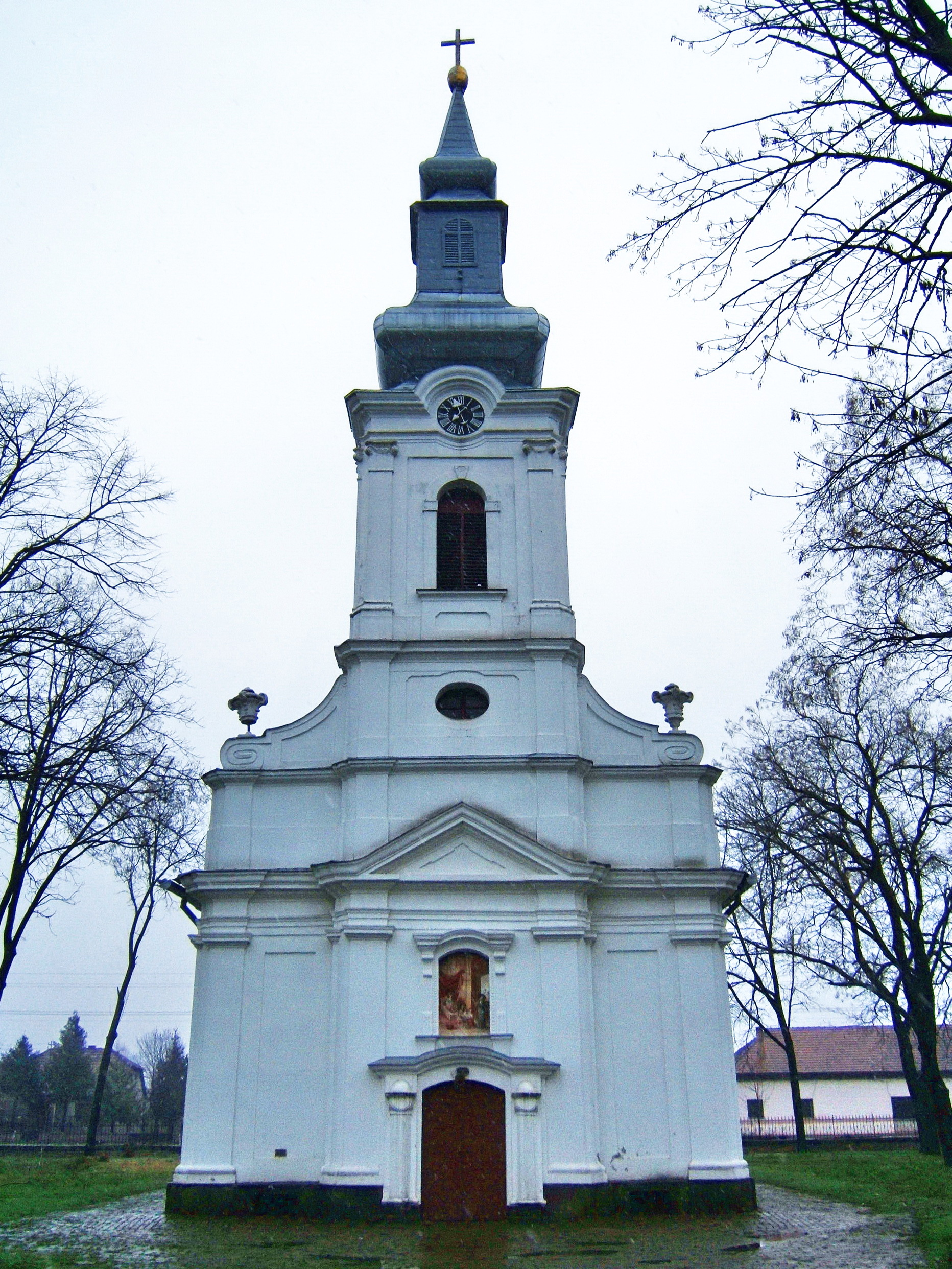 Serbian Orthodox church in Botoš - western facade